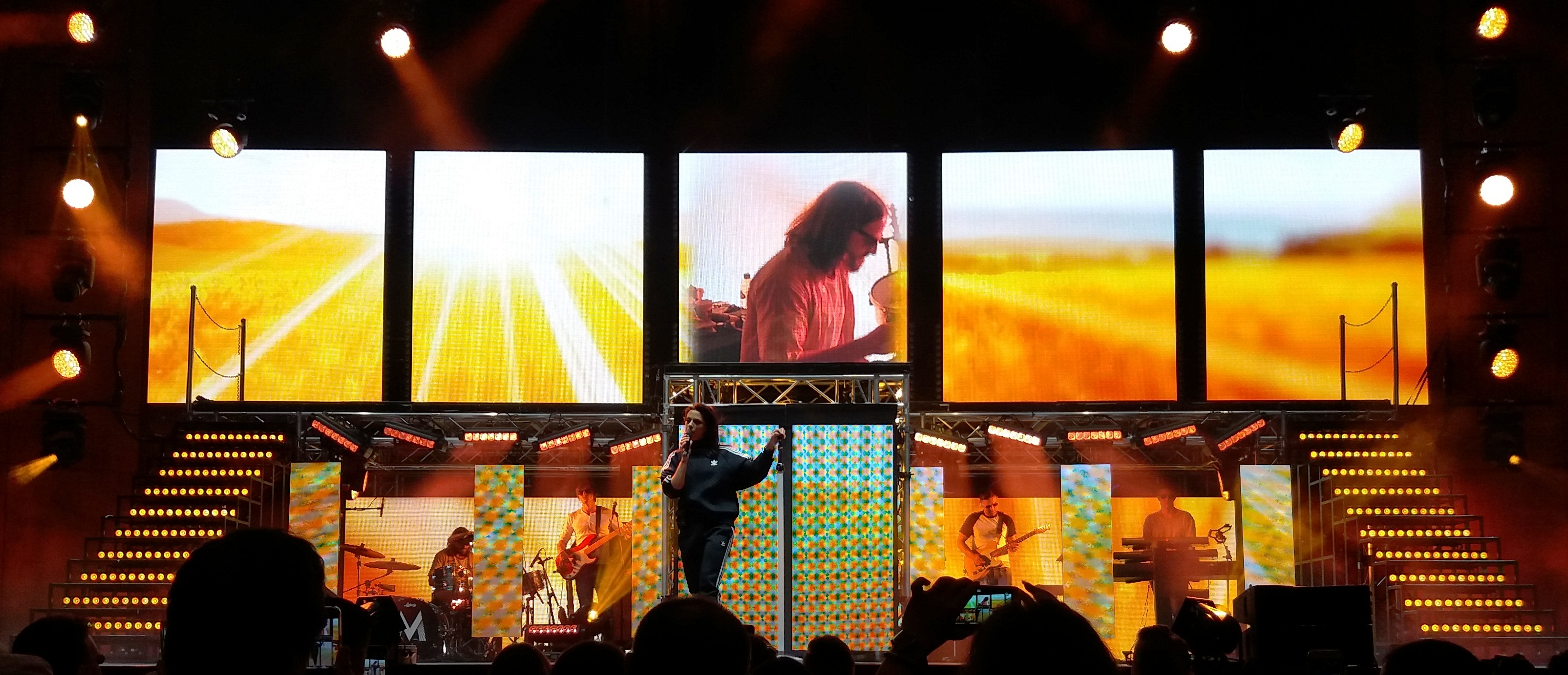 German Pop-Schlager-Singer Vanessa Mai during her "Regenbogen Tour" at Rosengarten Mozartsaal, Mannheim, Germany (17th May 2018).